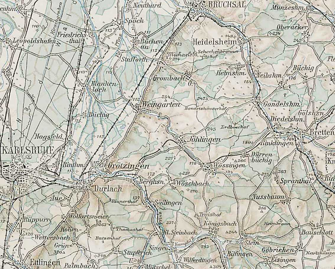 part of 3rd Military Mapping Survey of Austria-Hungary - Karlsruhe